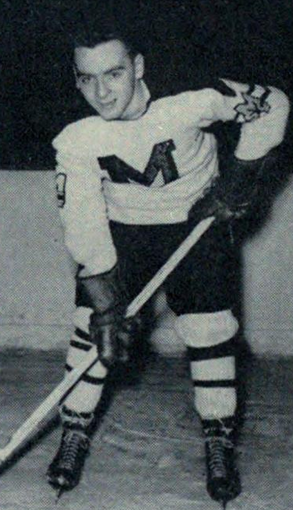 Paul Knox at St. Michaels College in Toronto